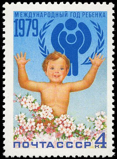 Soviet Union stamp (International Year of Child), 1979, 4 k.